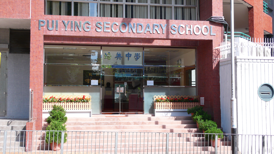 Pui Ying Secondary School Main Door